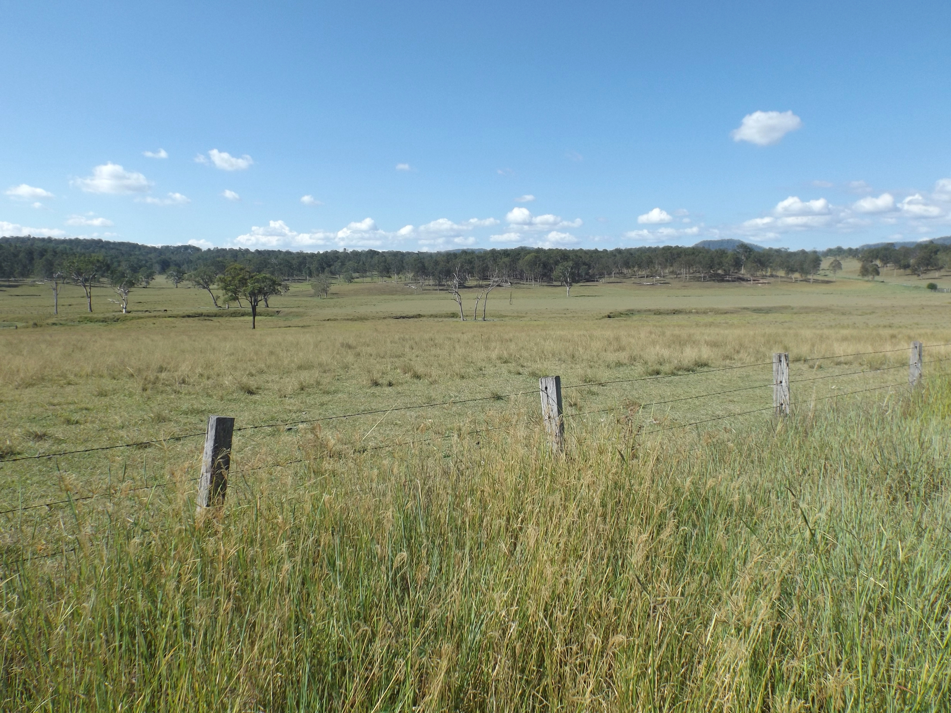 Photo of fields along George Lane at Oaky Creek, Scenic Rim Region, Queensland, Australia.